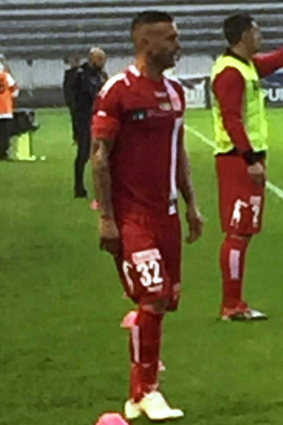 Monza - Viterbese, Coppa Italia Serie C Final 2019